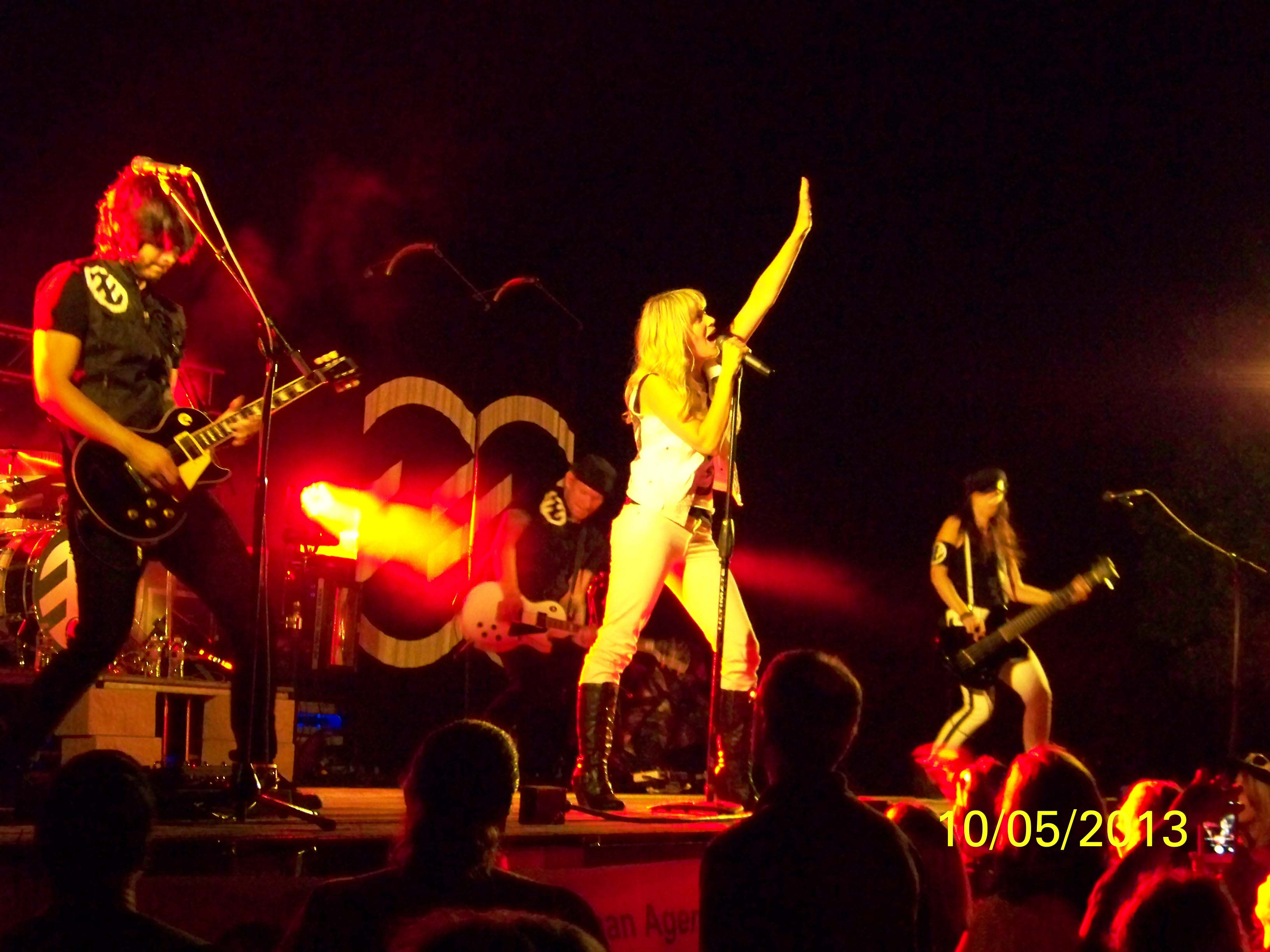 Fireflight at Gravel Hill Festival 2013 - 1.jpg Other information Taken by Fred Bahrenburg, (215) 859-1122